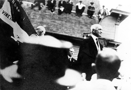 Gov. Samuel W. McCall speaking in Vineyard Haven, MA in en:1918. He is presenting a plaque to the town of Gay Head for having the largest percentage of the population in the armed services of any other town in the commonwealth. Lieut. Gov. Calvin Coolidge is visible over the Governor's left shoulder.